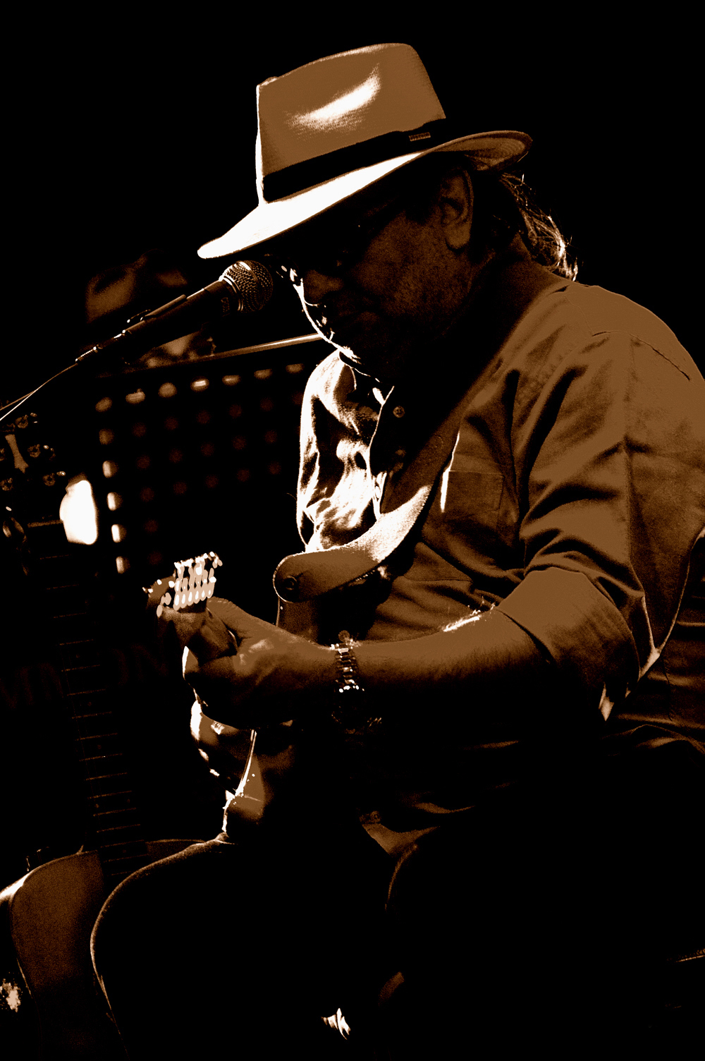 Roberto Ciotti Band - concert at Xroads Live Club